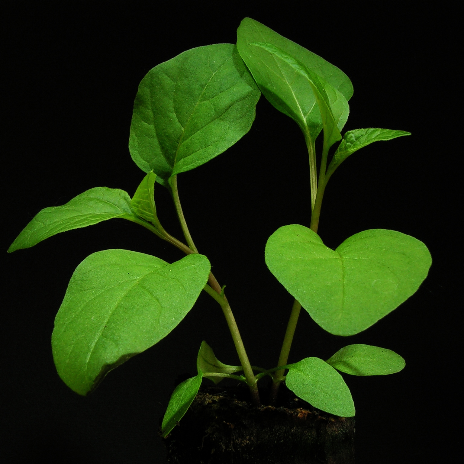 Seedling of Chinese lantern (Japanese lantern, Winter cherry) . The age of the plants is 1 month, its height is appr. 7 and 8 cm, the length of the biggest leaf (with petiole) is appr. 6 cm.